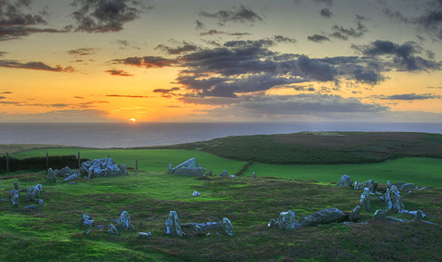 Meayll Circle at sunset